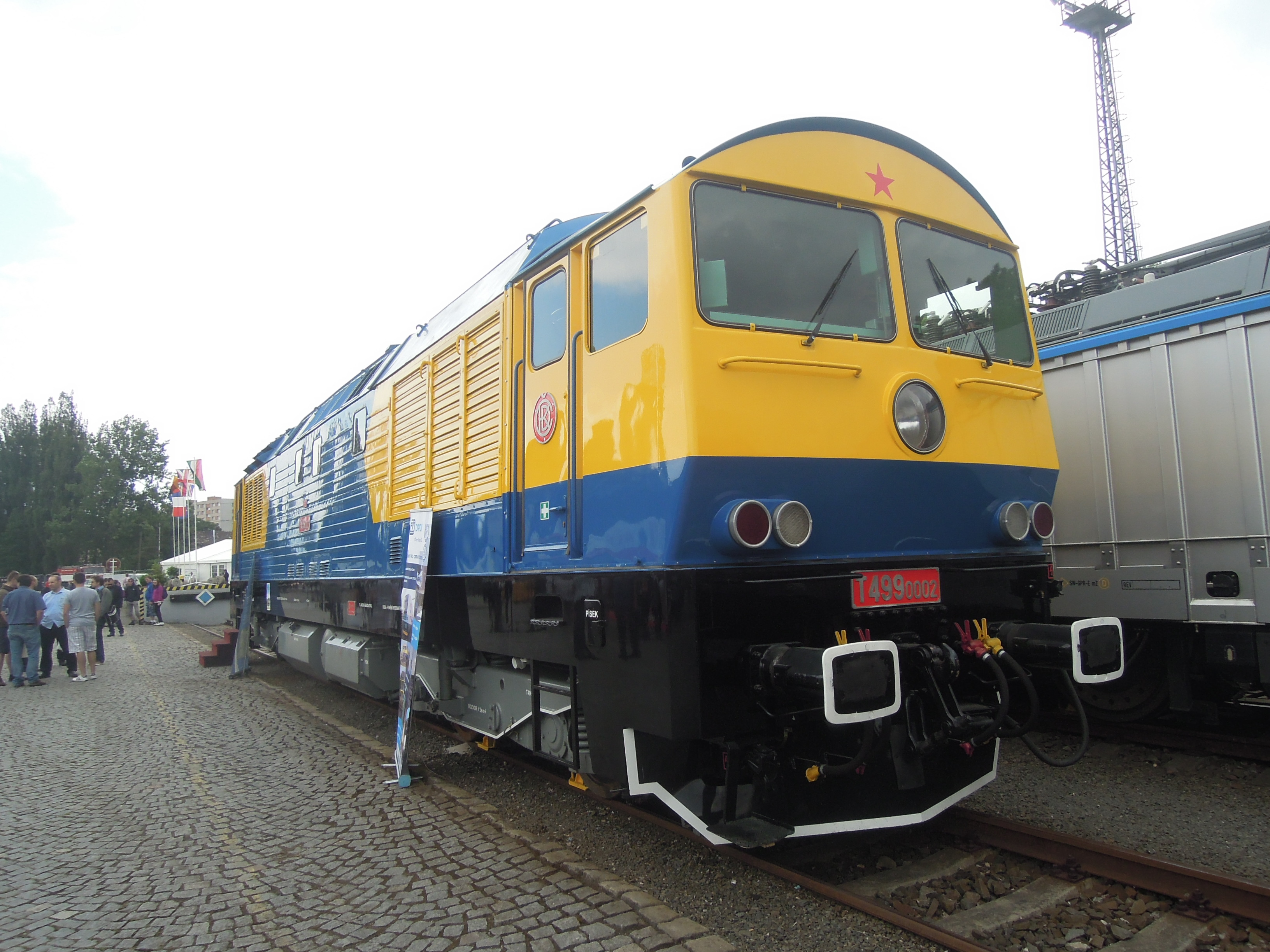 Diesel locomotive class 759 of České dráhy at the Czech Raildays 2015 trade fair in Ostrava, Czech Republic